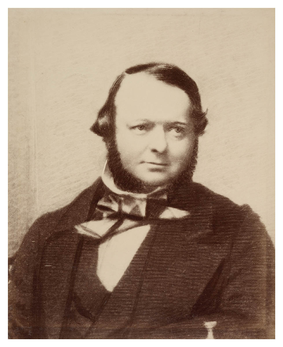 Stuart Donaldson, 1st Premier of New South Wales, Australia